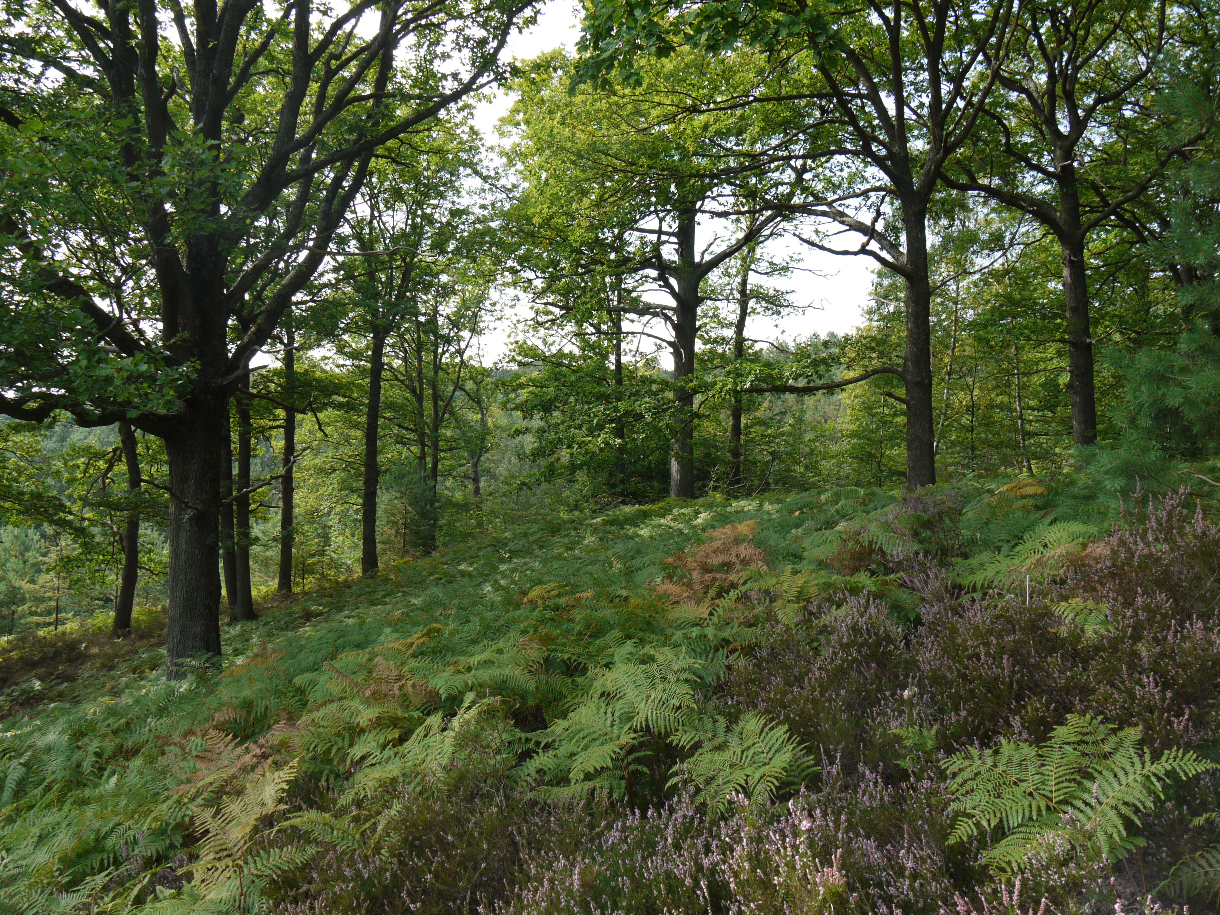 Foret de Rambouillet , Ile de France